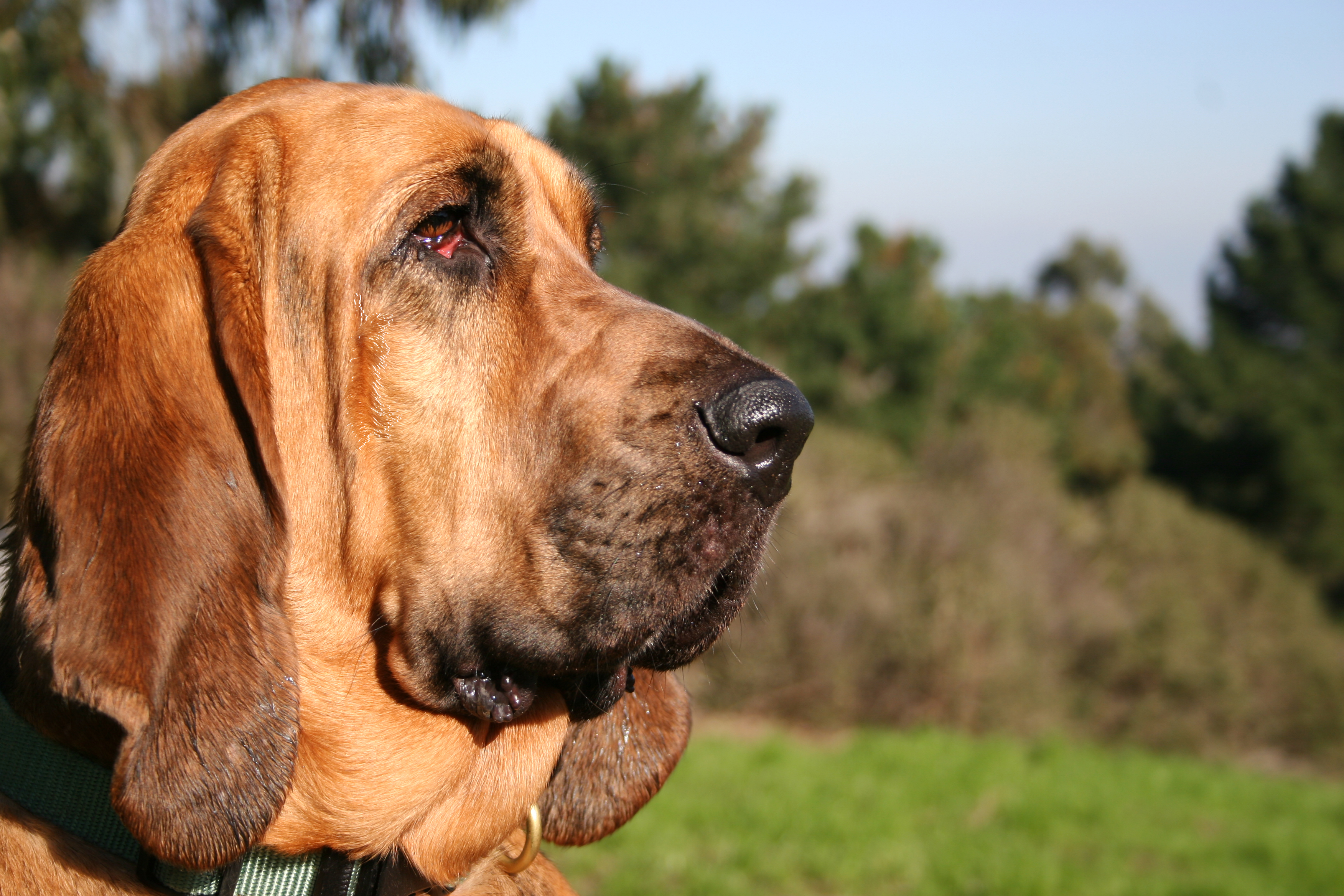 A female Bloodhound.